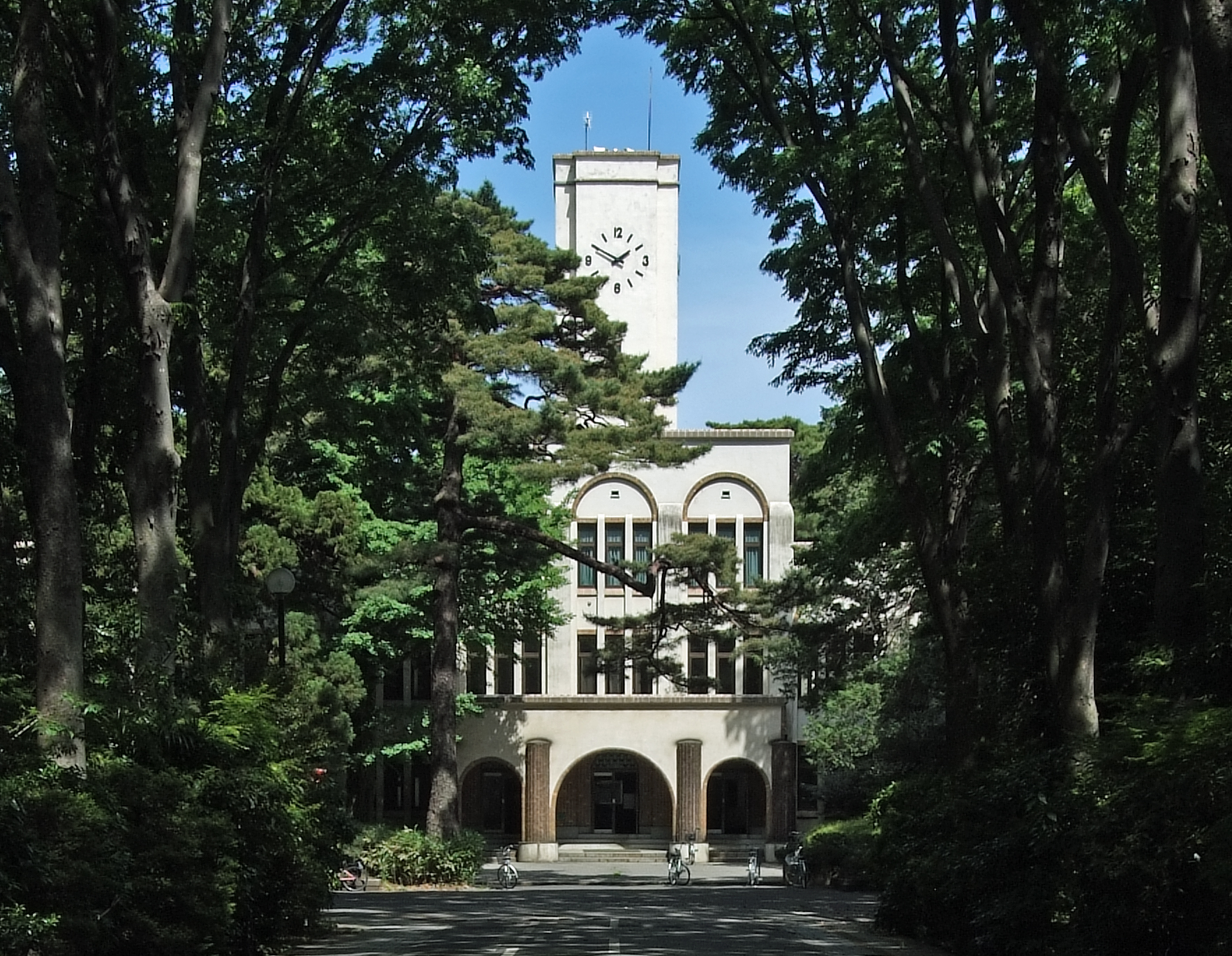 Main Building for Faculty of Agriculture, Tokyo University of Agriculture and Technology, HuchuTokyo Japan, designed by Yoshikazu Uchida in 1934.